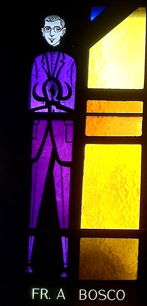 This is a stained glass depiction of Bishop Anthony G. Bosco. The window is located in Saint Patrick's Roman Catholic Church in Canonsburg, Pennsylvania.